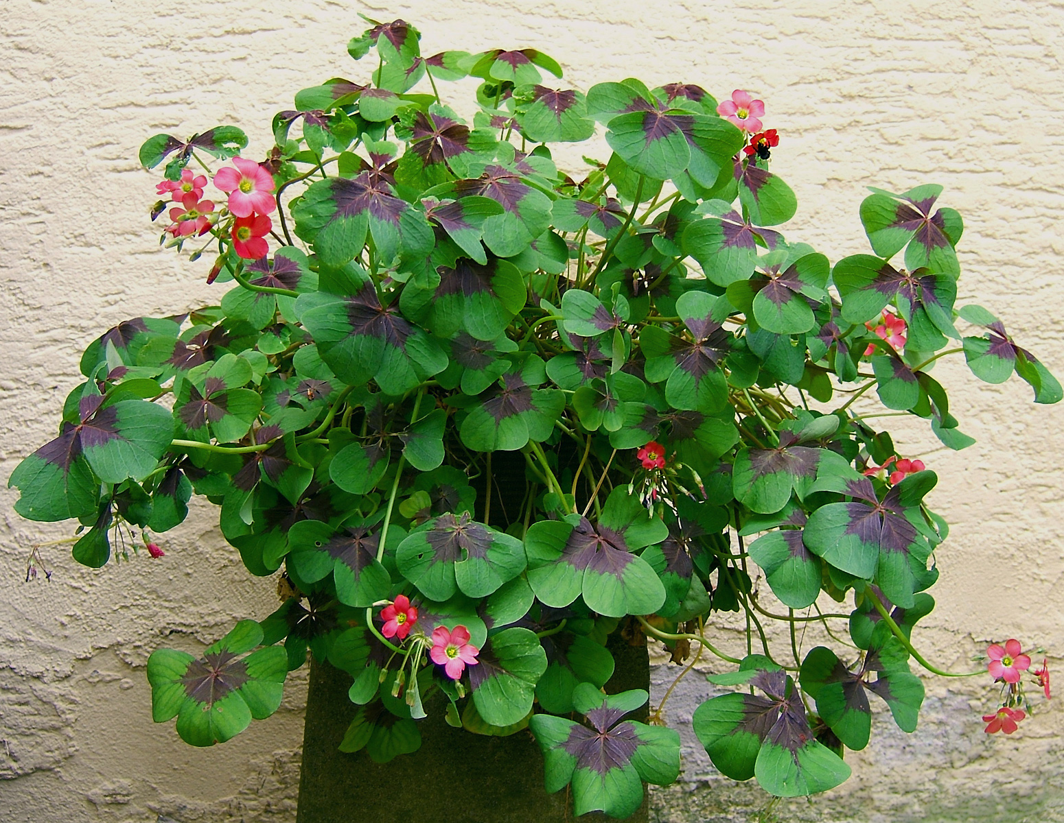 Fourleaf Sorrel; Lucky Clover